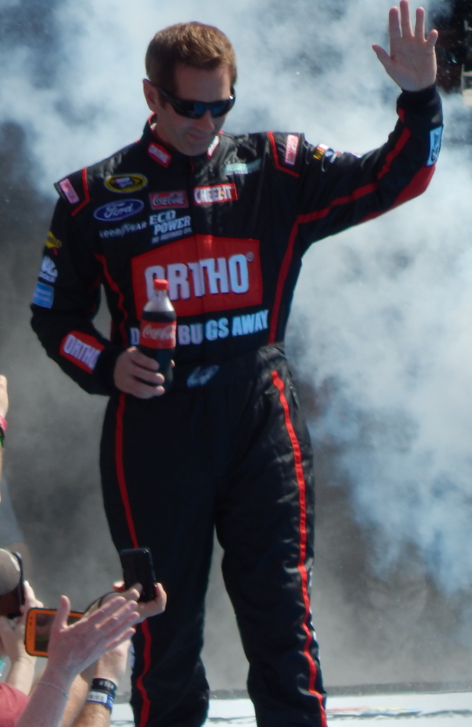 Greg Biffle being introduced at Daytona International Speedway.